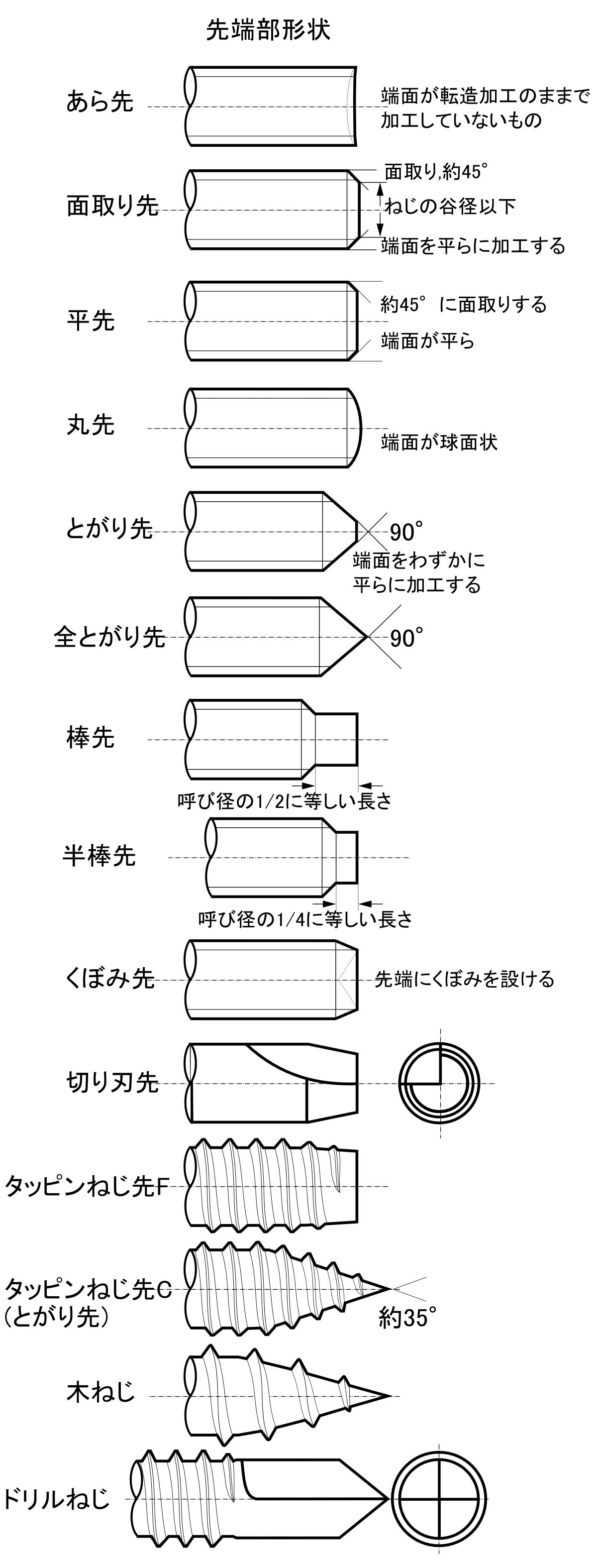 Screw (bolt) 12-J